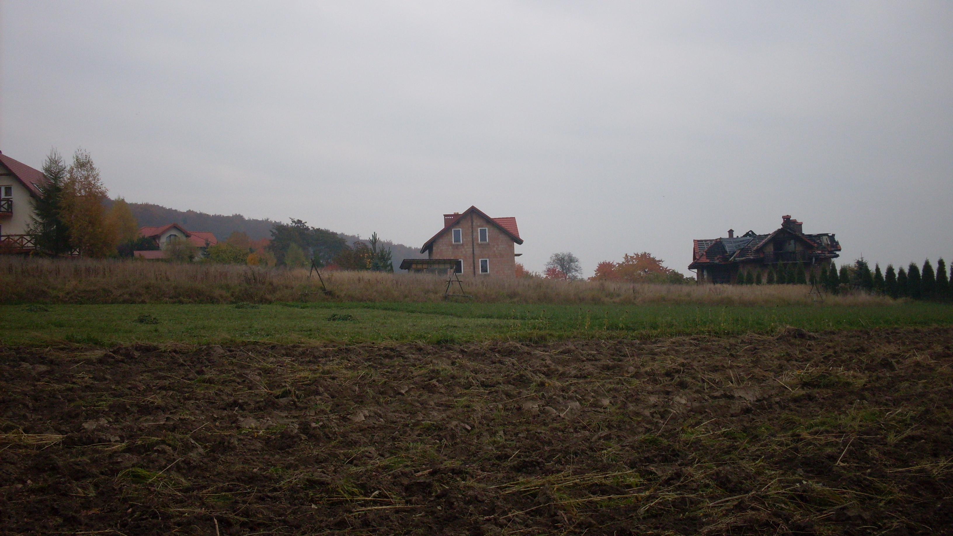 Siedlec. Błonie